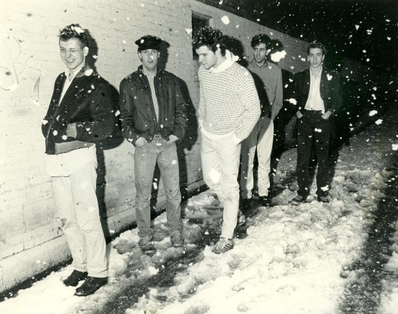 Ruin after a show at the University of Vermont